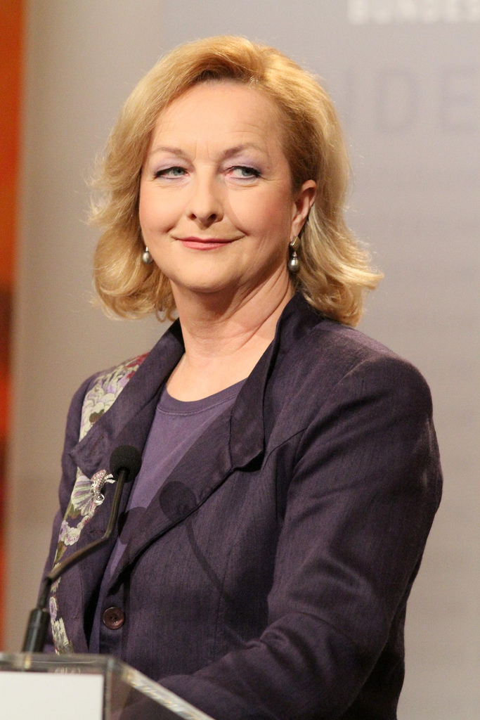 Maria Fekter, federal minister of the interior in Austria during a speech at the elections for federal presidency 2010.